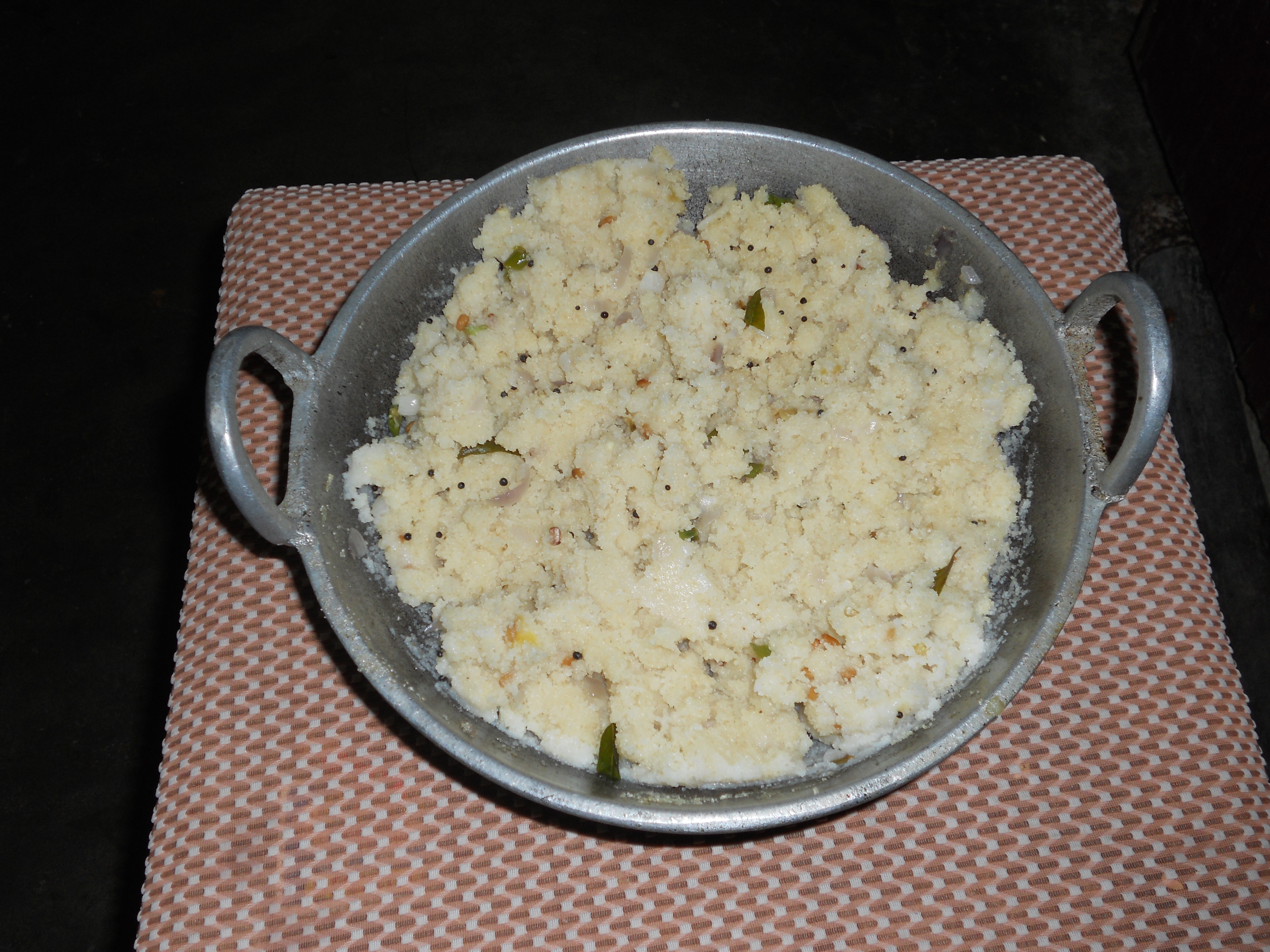 A kerala dish